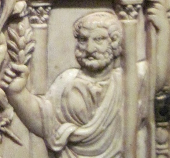 Detail of a panel of an ivory diptych, dated to the year 402, that bears the Symmachus family monogram and depicts the apotheosis of a mortal (probably Q. Aurelius Symmachus himself). He appears here at the end of his earthly life bearing a victorious palm frond. Property of the British Museum, temporarily on display at the Art Institute of Chicago. Interlingua: Detalio de un pannello de un diptycho in ebore, datate del anno 402, que porta le cifra del familia de Symmacho e depinge le apotheose de un mortal (probabilemente Q. Aurelio Symmacho ipse). Iste appare ci al fin de su vita mortal portante un palma de victoria. Proprietate del British Museum, temporarimente exposite in le Art Institute of Chicago.